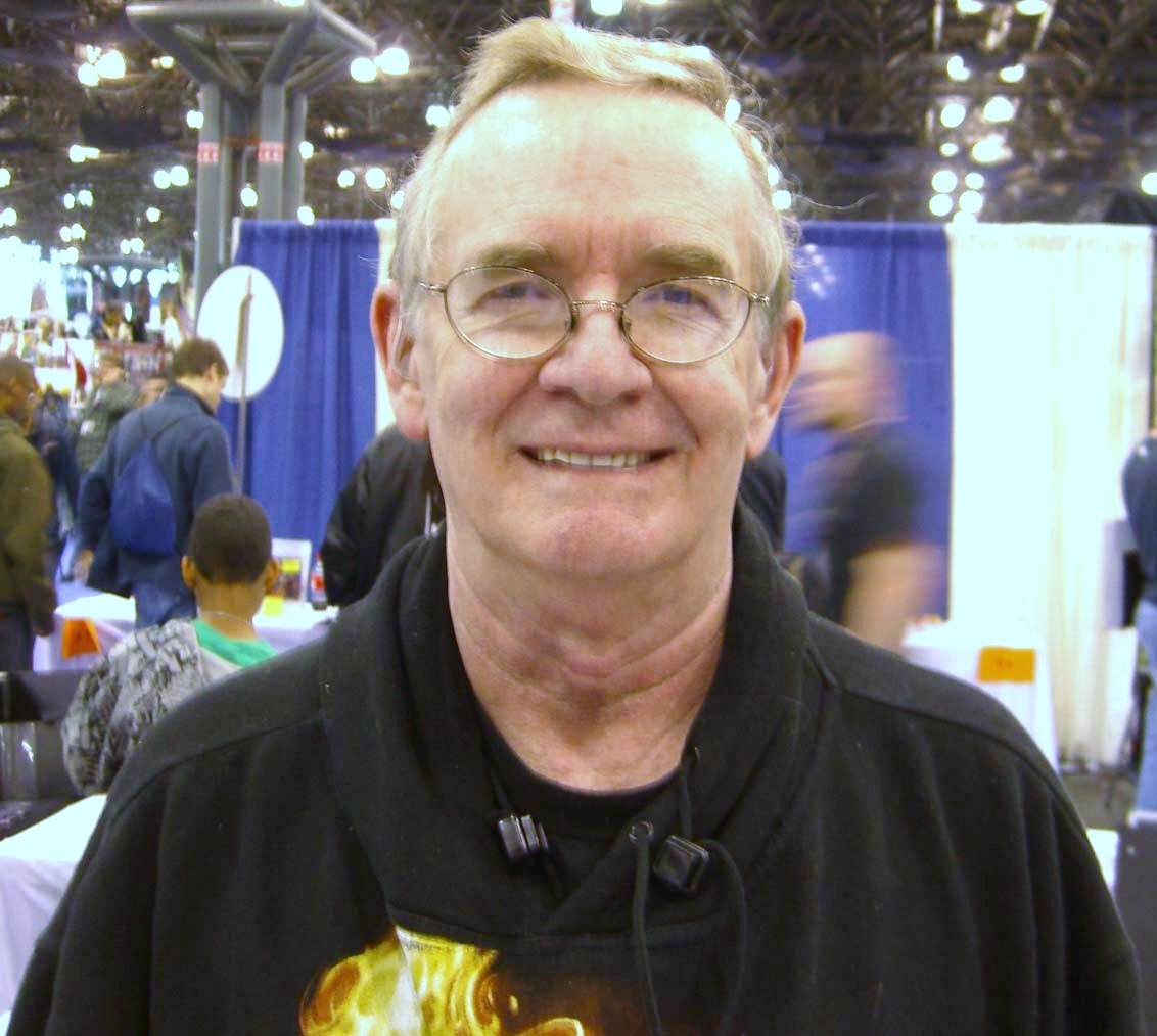 Comic book creator Gary Friedrich (creator of Ghost Rider) at the New York Comic Convention in Manhattan, April 20, 2008. This photo was created by Luigi Novi. It is not in the public domain, and use of this file outside of the licensing terms is a copyright violation.